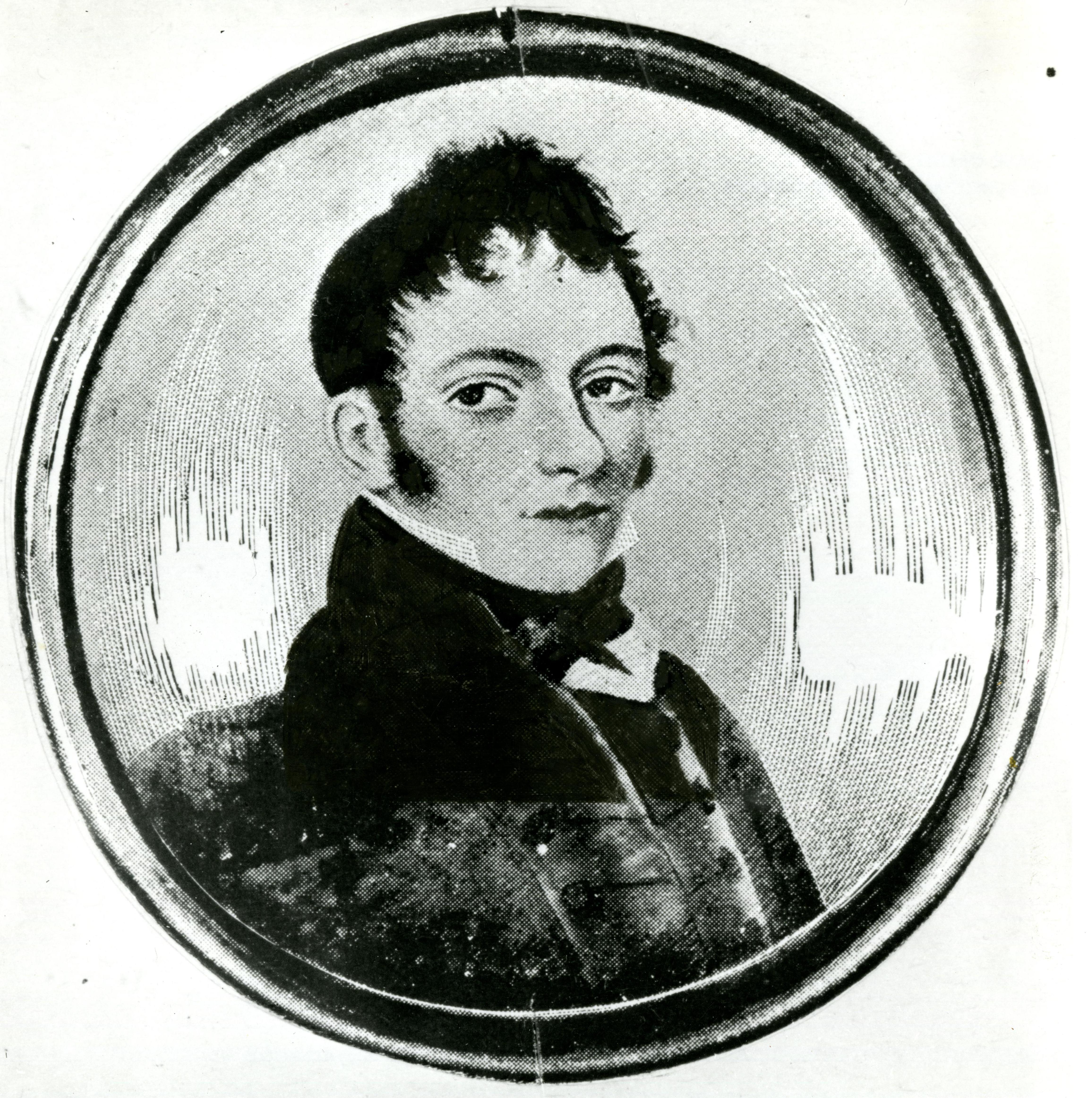 Richard Henry Bonnycastle , a military officer active in Canada in the first half of the 19th century. Photo of painting by Henry J. Morgan in Sketches of Celebrated Canadians, Quebec, 1862, vol. 5, p. 356 (from Library and Archives Canada .